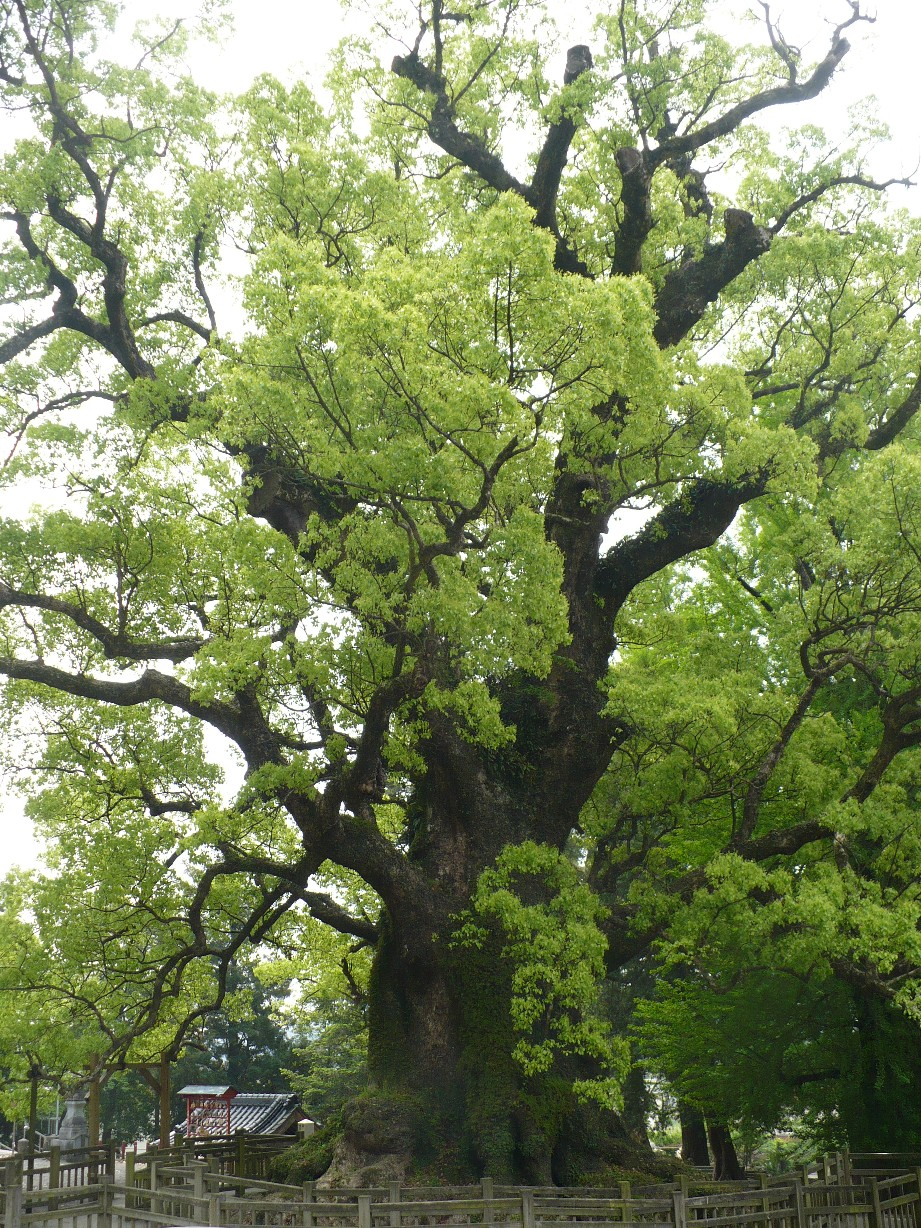 Kamo no Ōkusu (Grand Cinnamomum camphora tree of Kamo) is thickest tree in Japan. Kamo hachiman shrine, Aira city, Kagoshima prefecture, Japan.